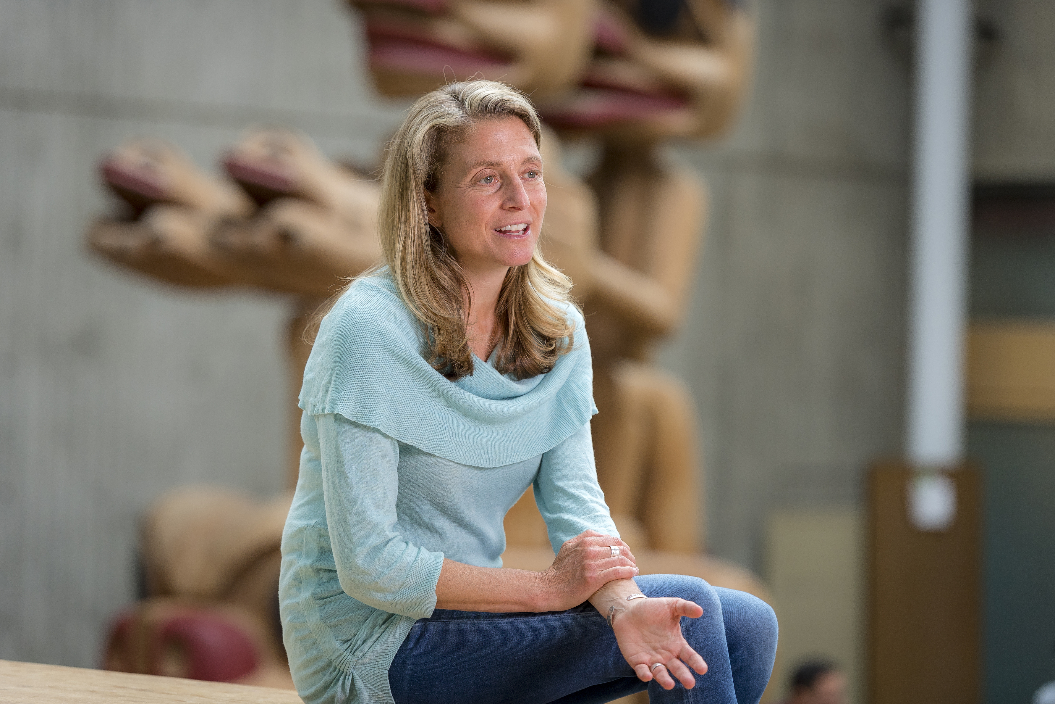 SFU professor Anne Salomon was elected a Member of the Royal Society of Canada